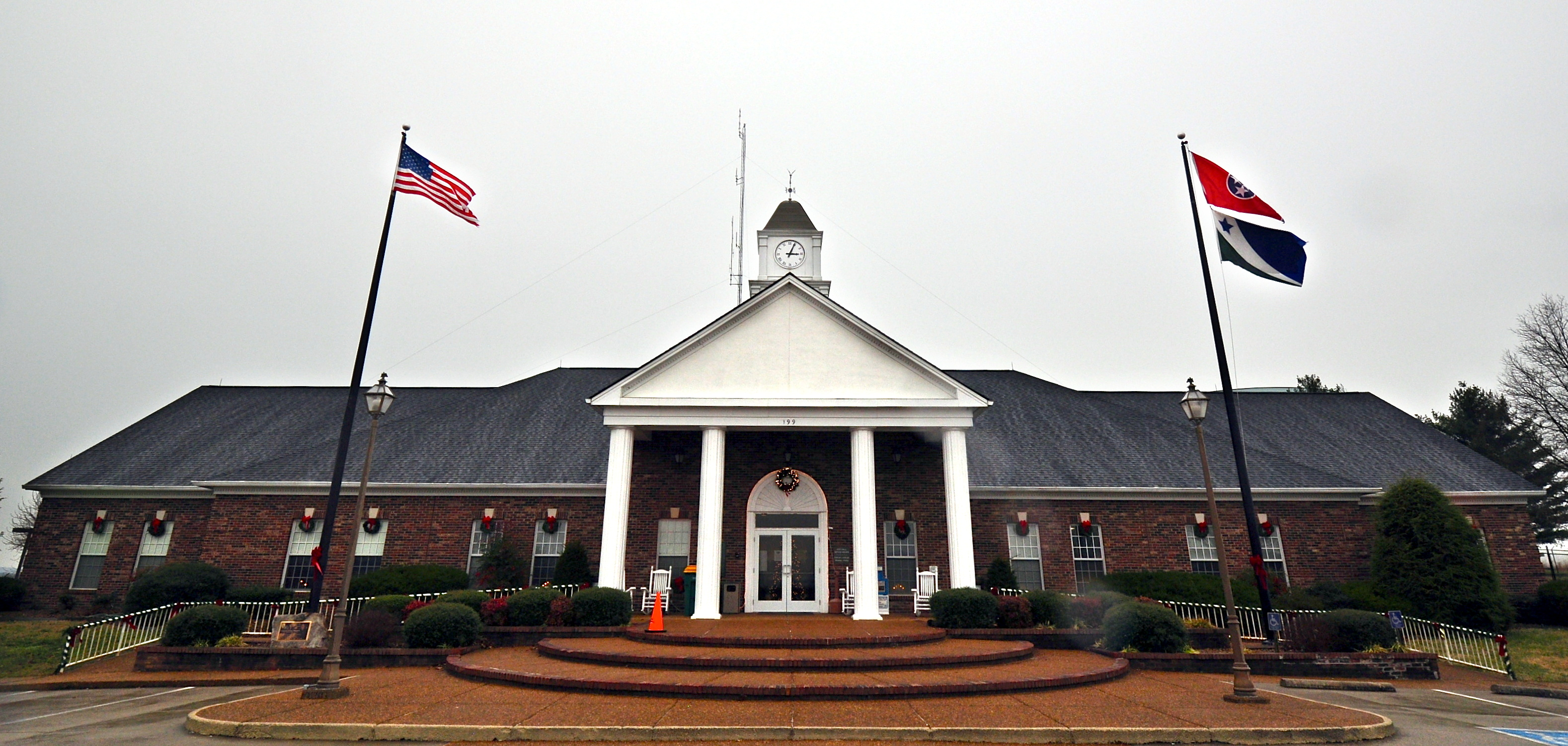 Located at Spring Hill, Tennessee.